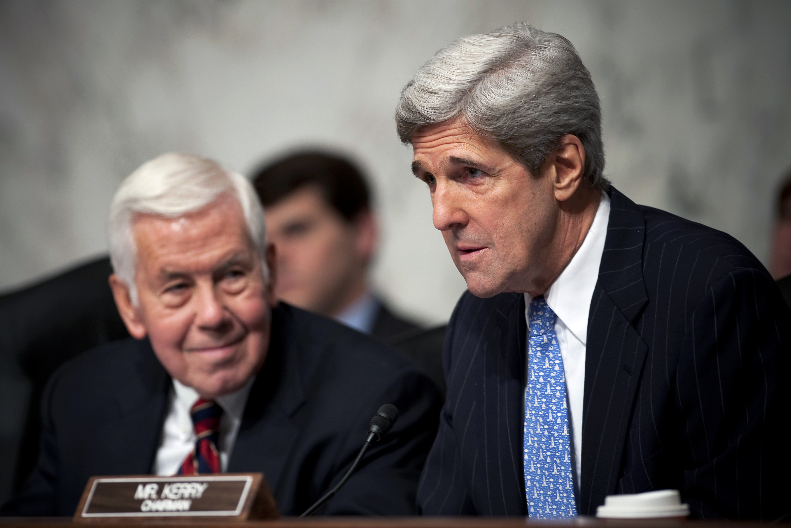 Sen. Richard Lugar, left, and Sen. John Kerry, chairman of the Senate Foreign Relations Committee, respond to the testimony of Navy Adm. Mike Mullen, chairman of the Joint Chiefs of Staff, Secretary of State Hillary Rodham Clinton and Defense Secretary Robert M. Gates at the Hart Senate Office Building in Washington, D.C., Dec. 3, 2009. The hearing focused on President Barack Obama's decision to send an additional 30,000 troops to the war in Afghanistan. DoD photo by U.S. Navy Petty Officer 1st Class Chad J. McNeeley